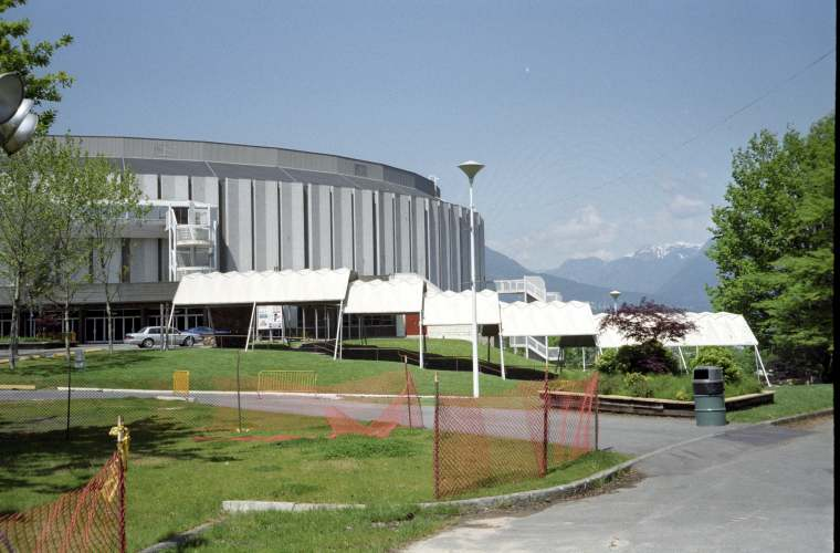 Pacific Coliseum in Vancouver, home of the Vancouver Giants, former home of the Vancouver Canucks